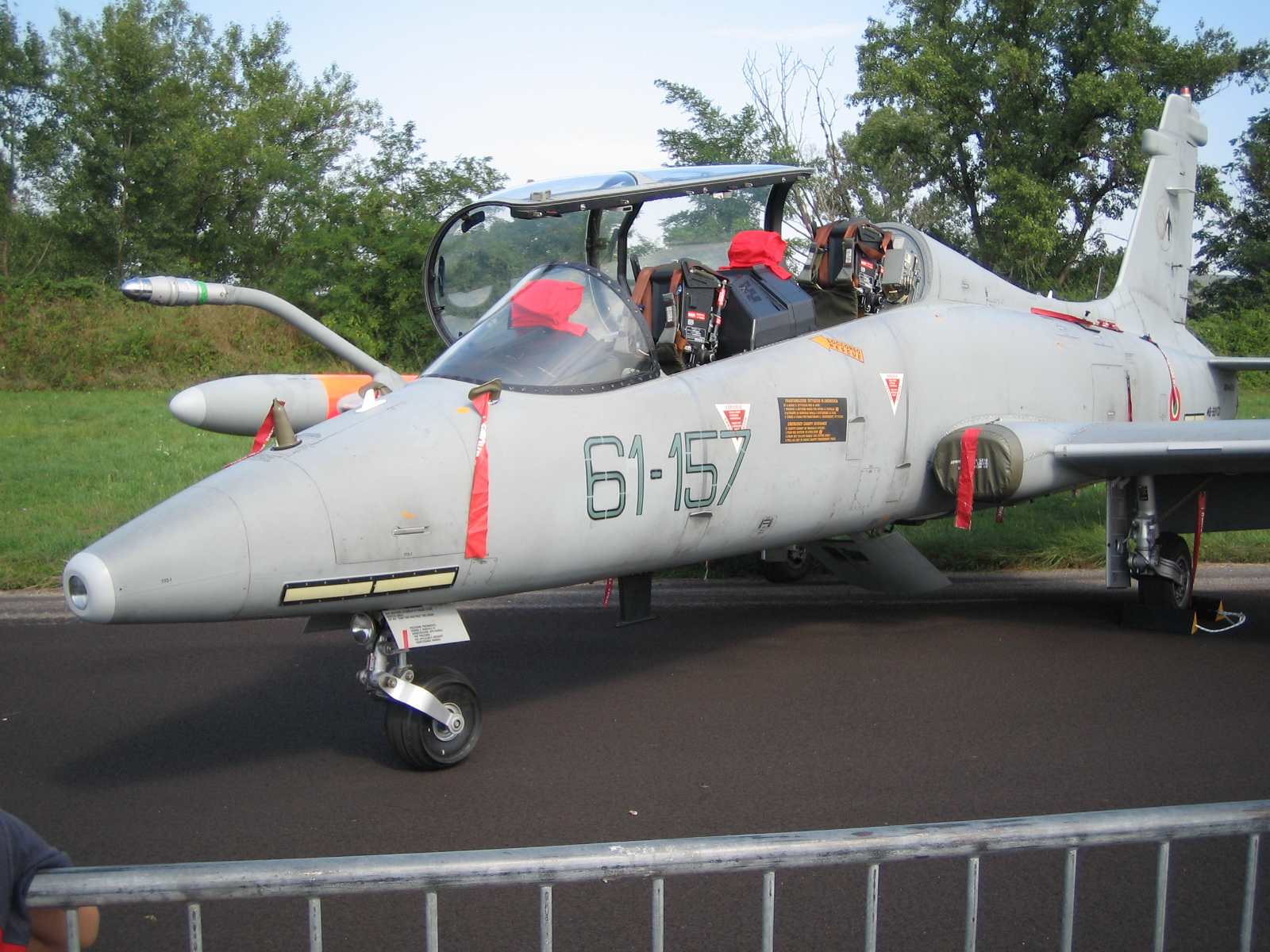 Lorenzo Tomasi